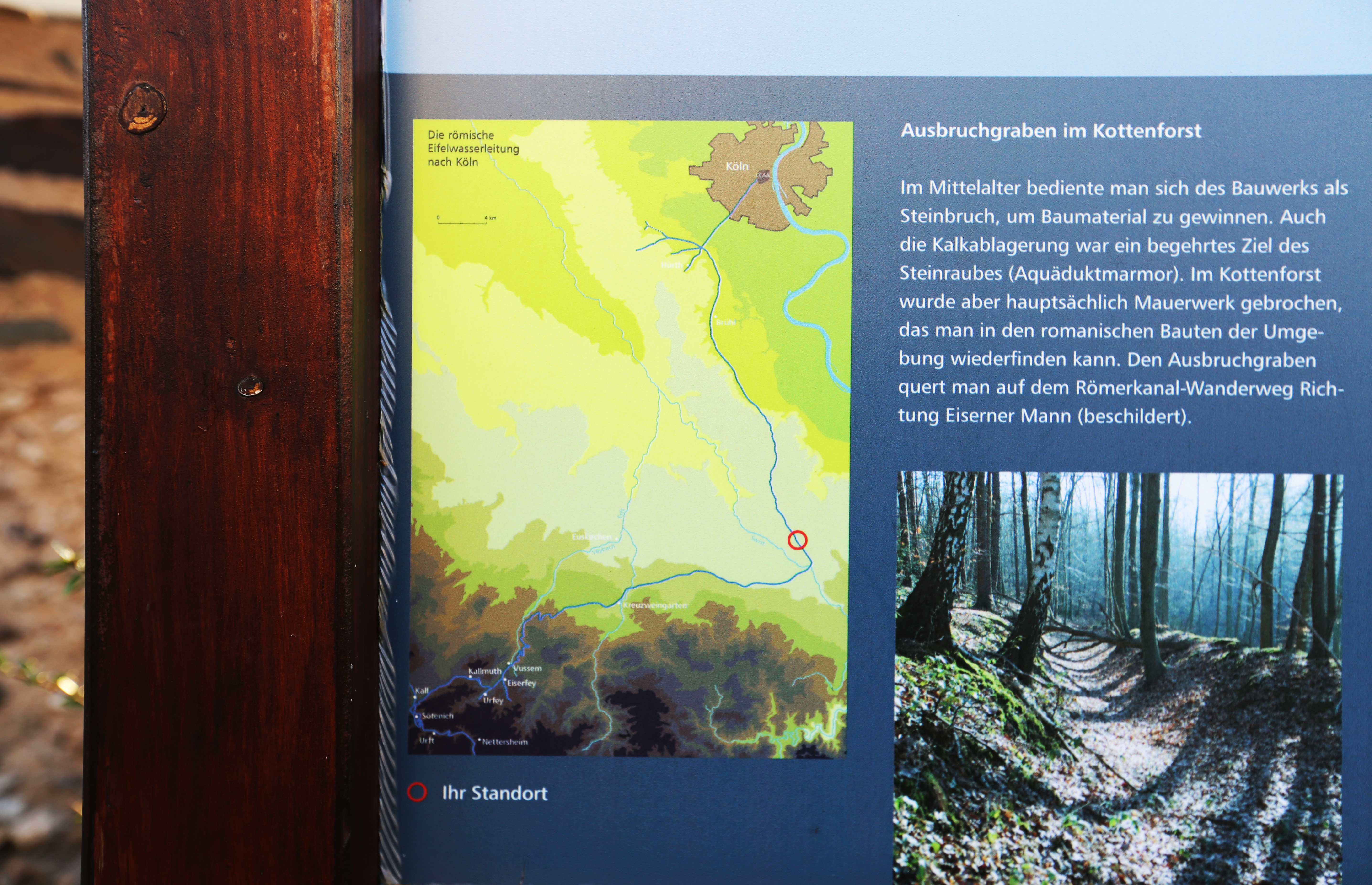 Part of the former Eifel Aqueduct course in Kottenforst, northwest of Bonn